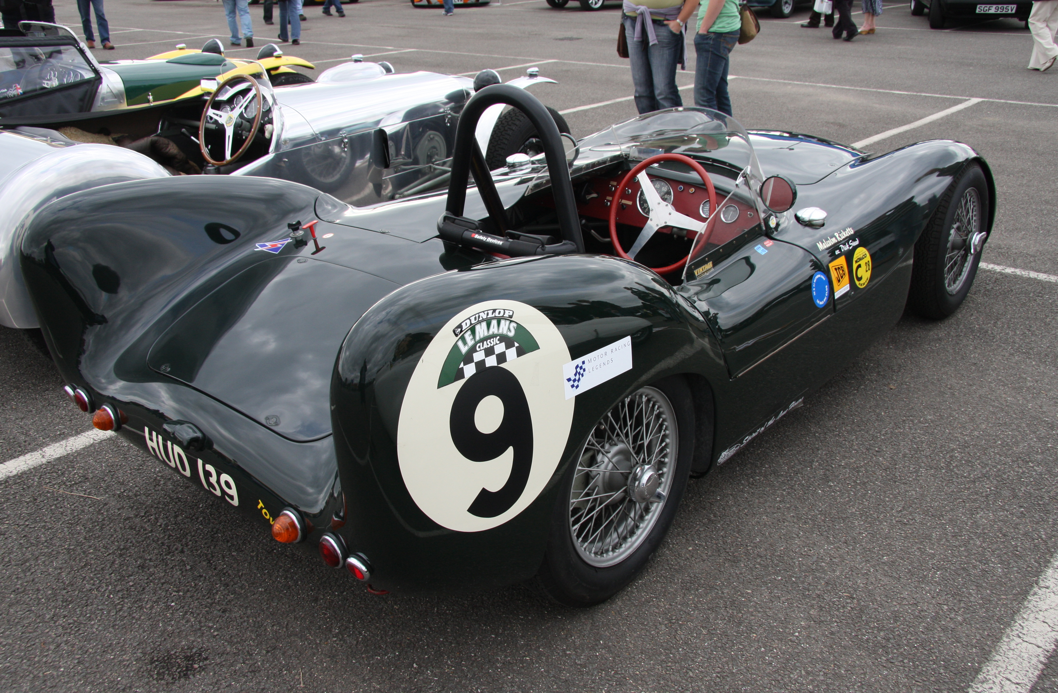 1955 Lotus Mk 9 at Lotus 60th Celebration